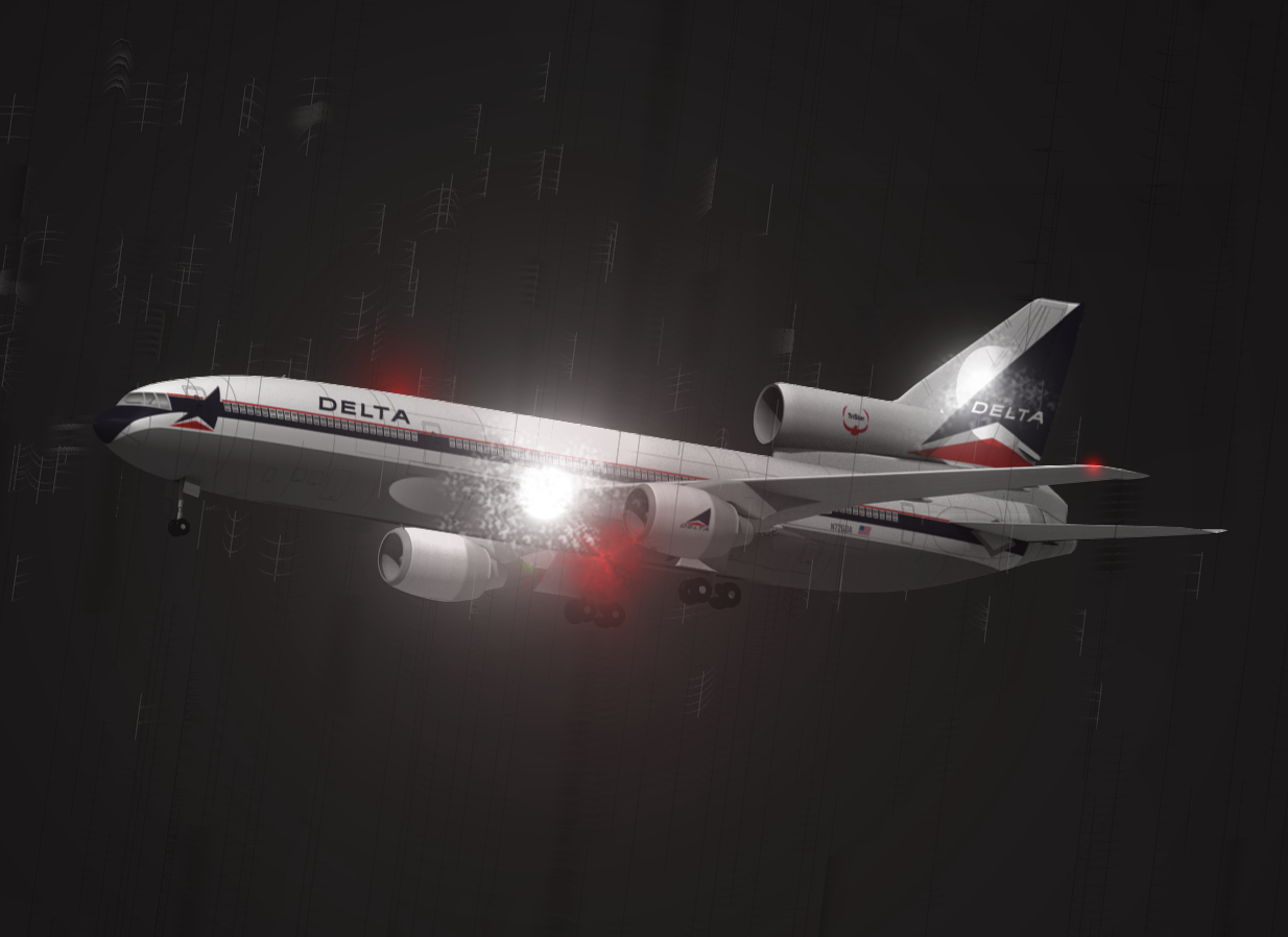 Delta Airlines Flight 191